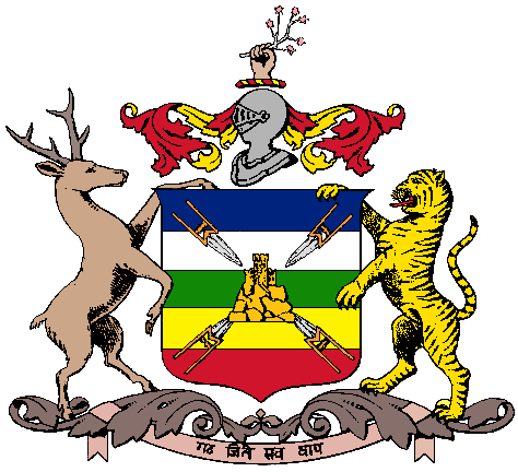 Alwar State coat of arms. Motto: Garh jite sab dhap This work is in the public domain in India because its term of copyright has expired. The Indian Copyright Act applies in India, to works first published in India. According to The Indian Copyright Act, 1957 (Chapter V Section 25), Anonymous works, photographs, cinematographic works, sound recordings, government works, and works of corporate authorship or of international organizations enter the public domain 60 years after the date on which they were first published, counted from the beginning of the following calendar year (ie. as of 2018, works published prior to 1 January 1958 are considered public domain). Posthumous works (other than those above) enter the public domain after 60 years from publication date. Any other kind of work enters the public domain 60 years after the author's death. Text of laws, judicial opinions, and other government reports are free from copyright. Photographs created before 1958 are in the public domain 50 years after creation, as per the Copyright Act 1911. This file may not be in the public domain outside India. The creator and year of publication are essential information and must be provided. See Wikipedia:Public domain and Wikipedia:Copyrights for more details. This image shows a flag, a coat of arms, a seal or some other official insignia. The use of such symbols is restricted in many countries. These restrictions are independent of the copyright status.